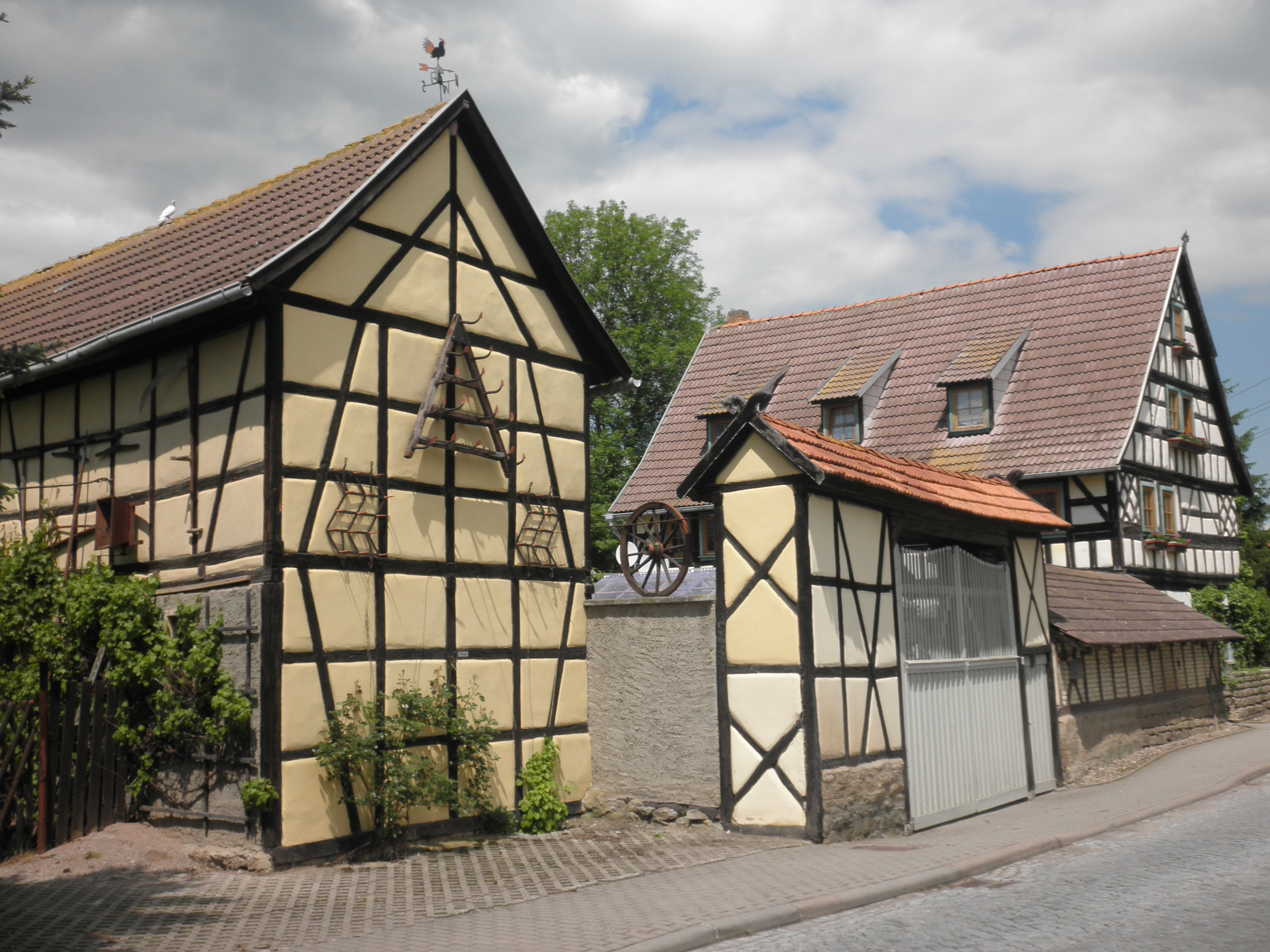 Farm Houses in Elxleben (Ilm-Kreis) in Thuringia